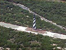 Moving Cape Hatteras Light